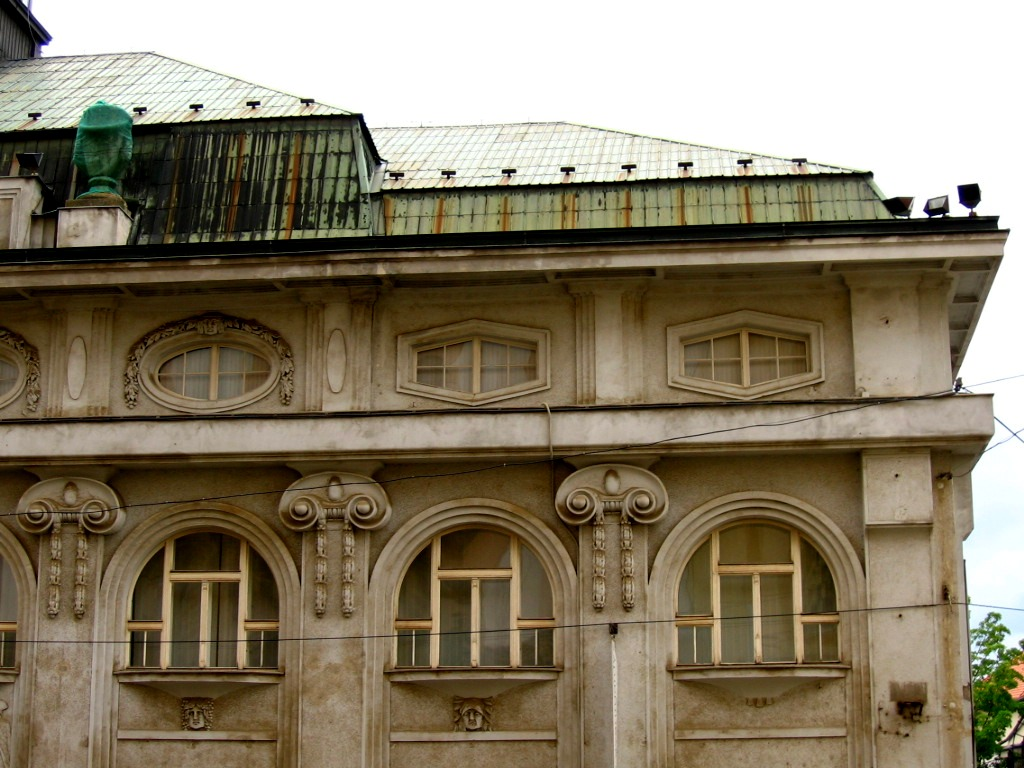 The Museum of Modern Art in Olomouc, the Czech Republic.